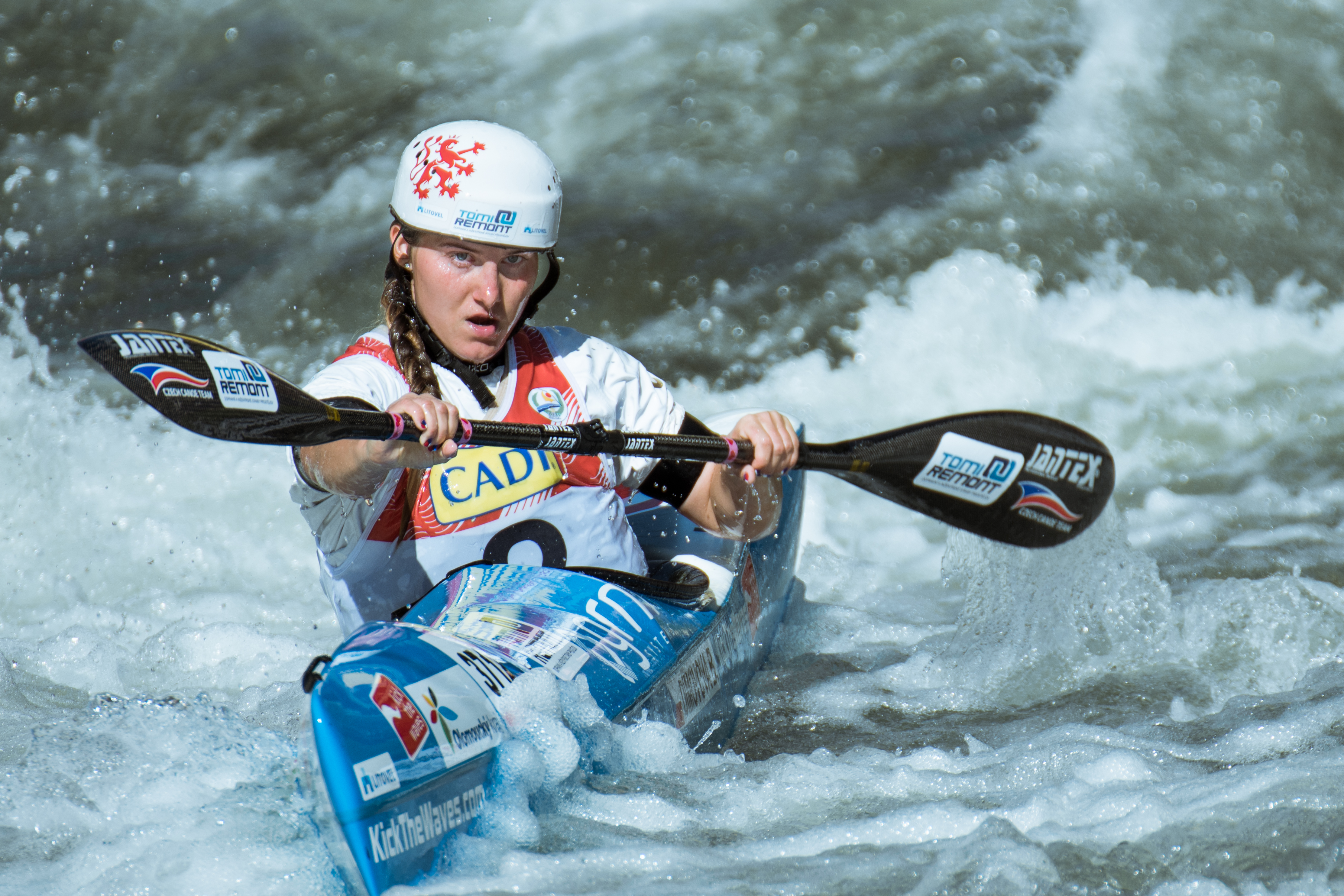 Barbora Dimovová during the 2019 Canoe Wildwater World Championships in La Seu d'Urgell, Spain.